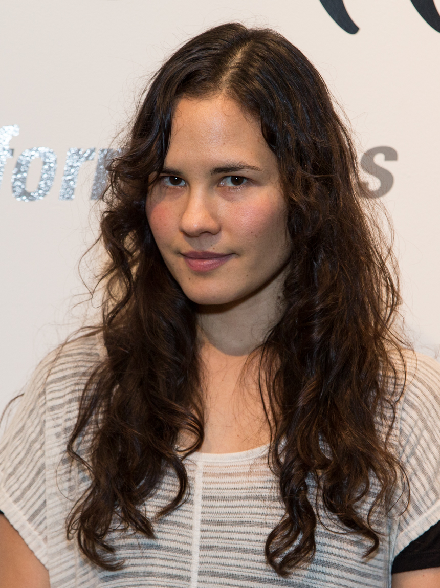 Laurel Nakadate at the Atlanta Contemporary Art Center on Friday, October 12, 2012